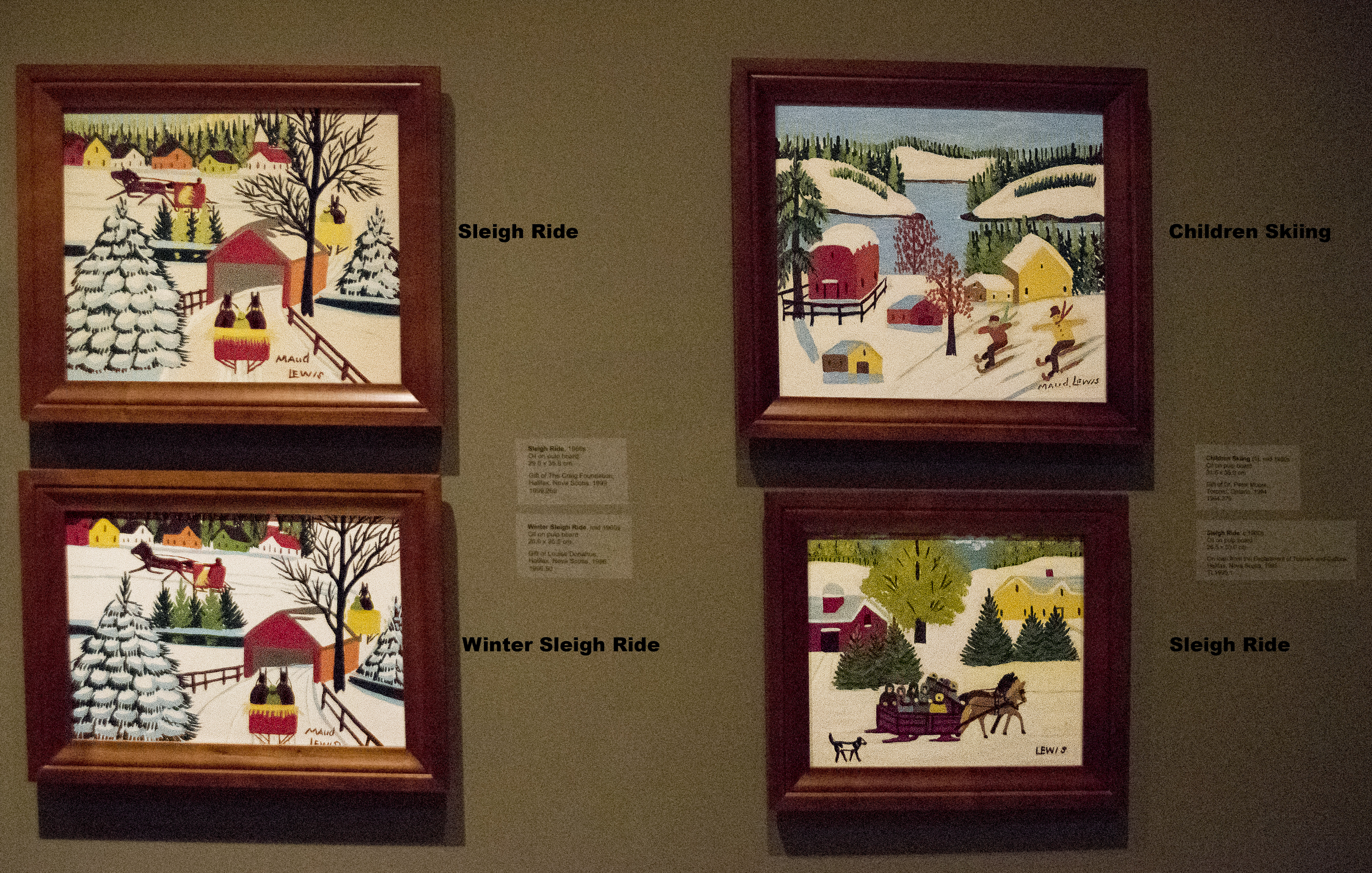 Four paintings by Maud Lewis